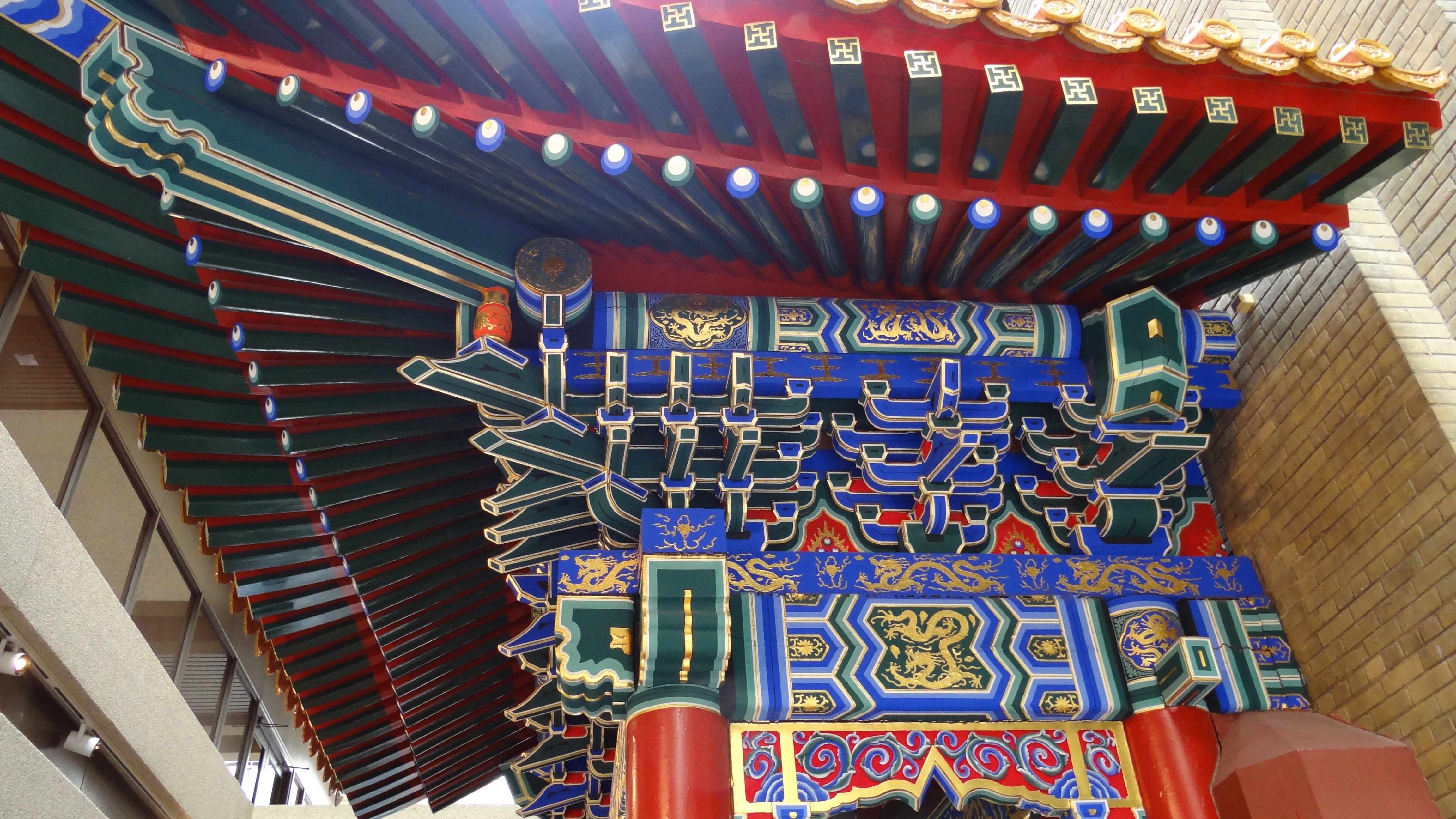 painted wood